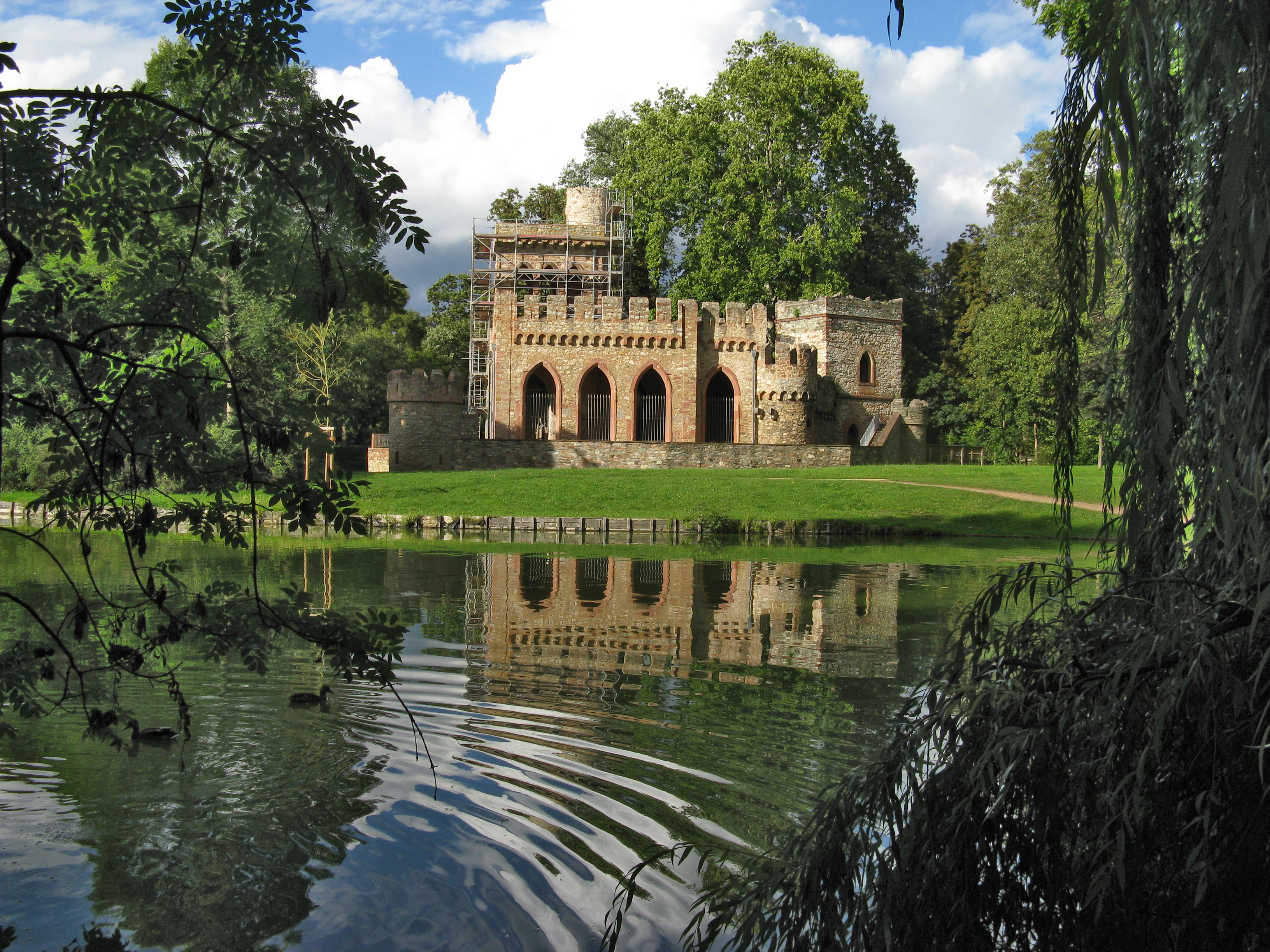 Mosburg in Schlosspark Biebrich, Wiesbaden, Germany